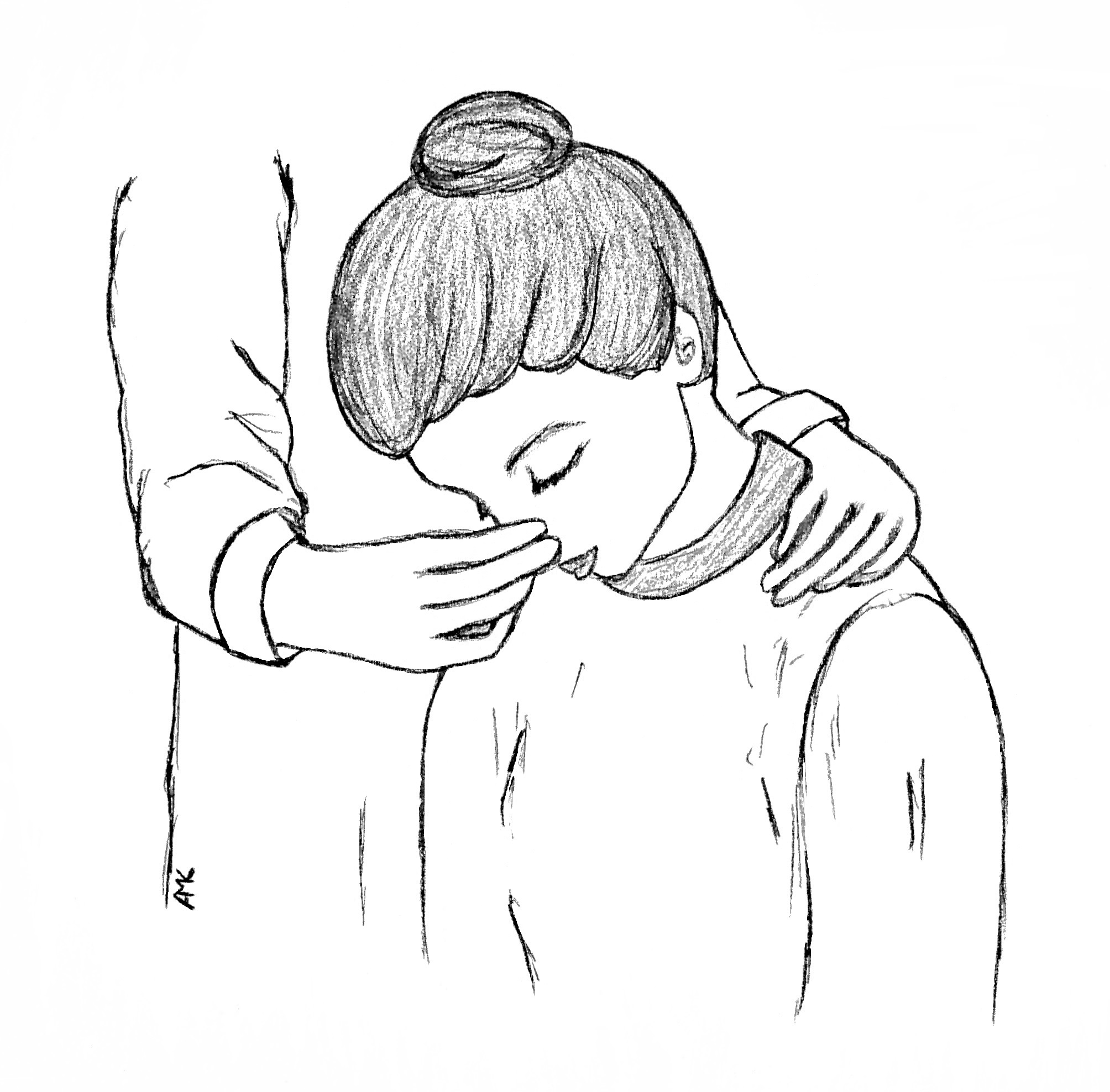 Nosebleed aid